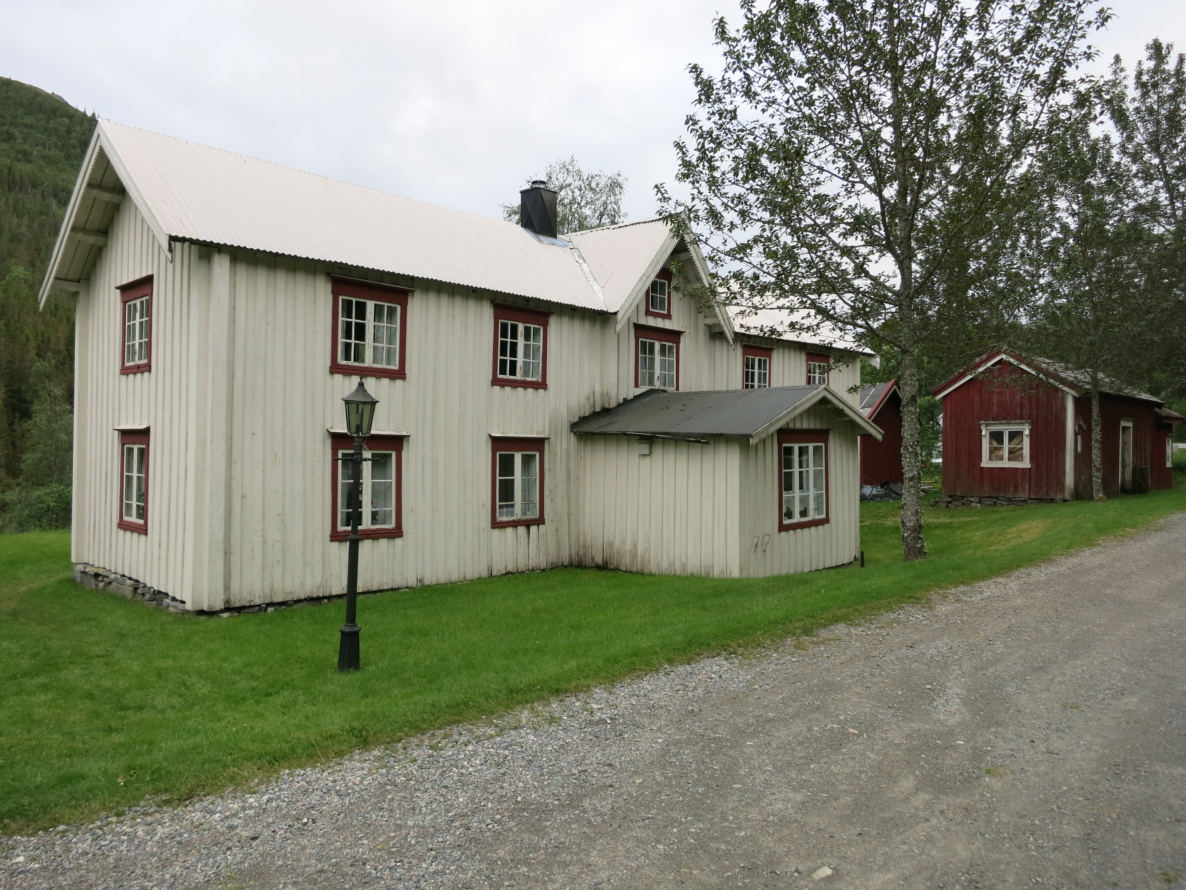 Fredmoen salmon fishing museum